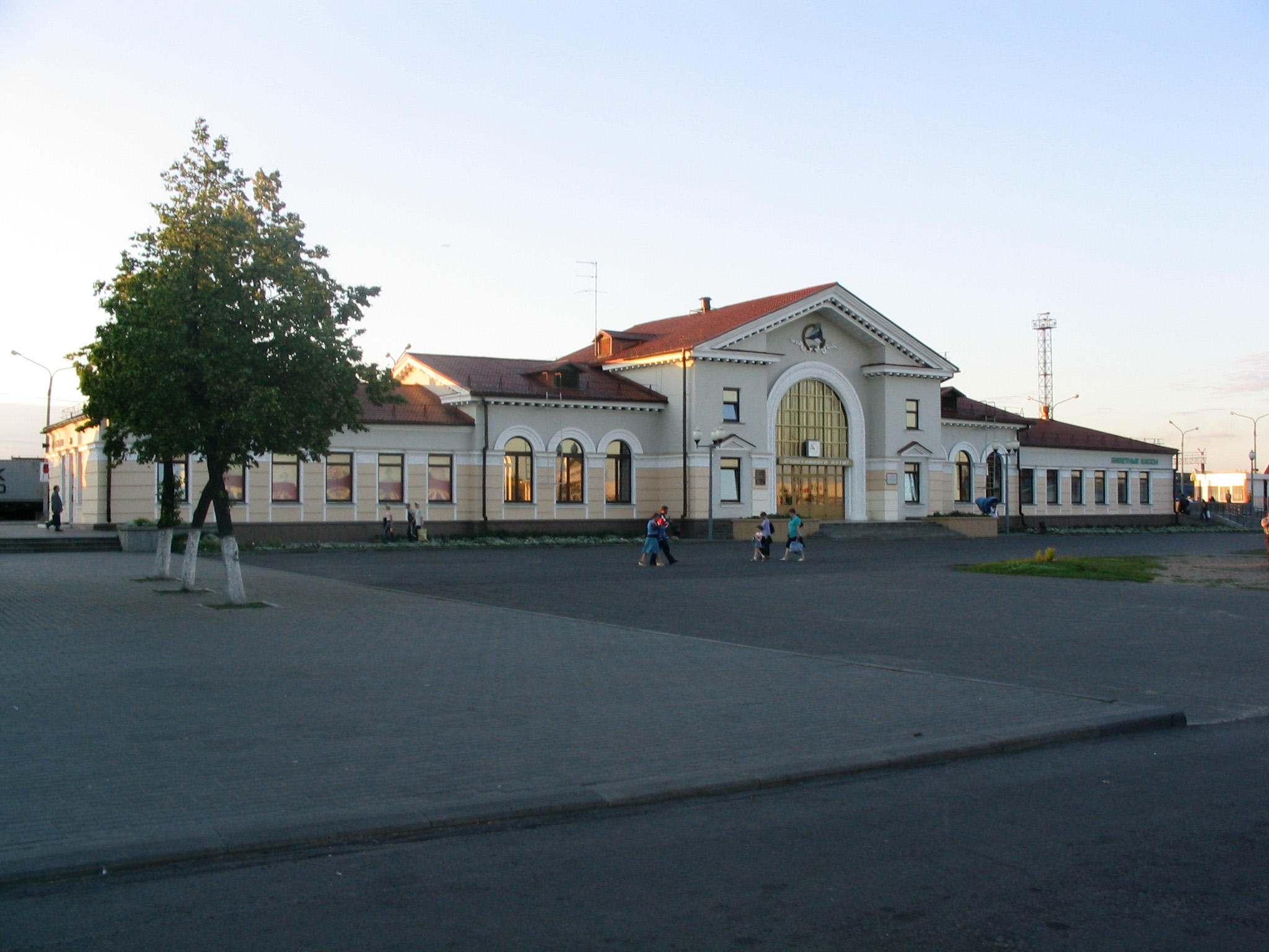 Railway station in Kalinkavichy, Belarus